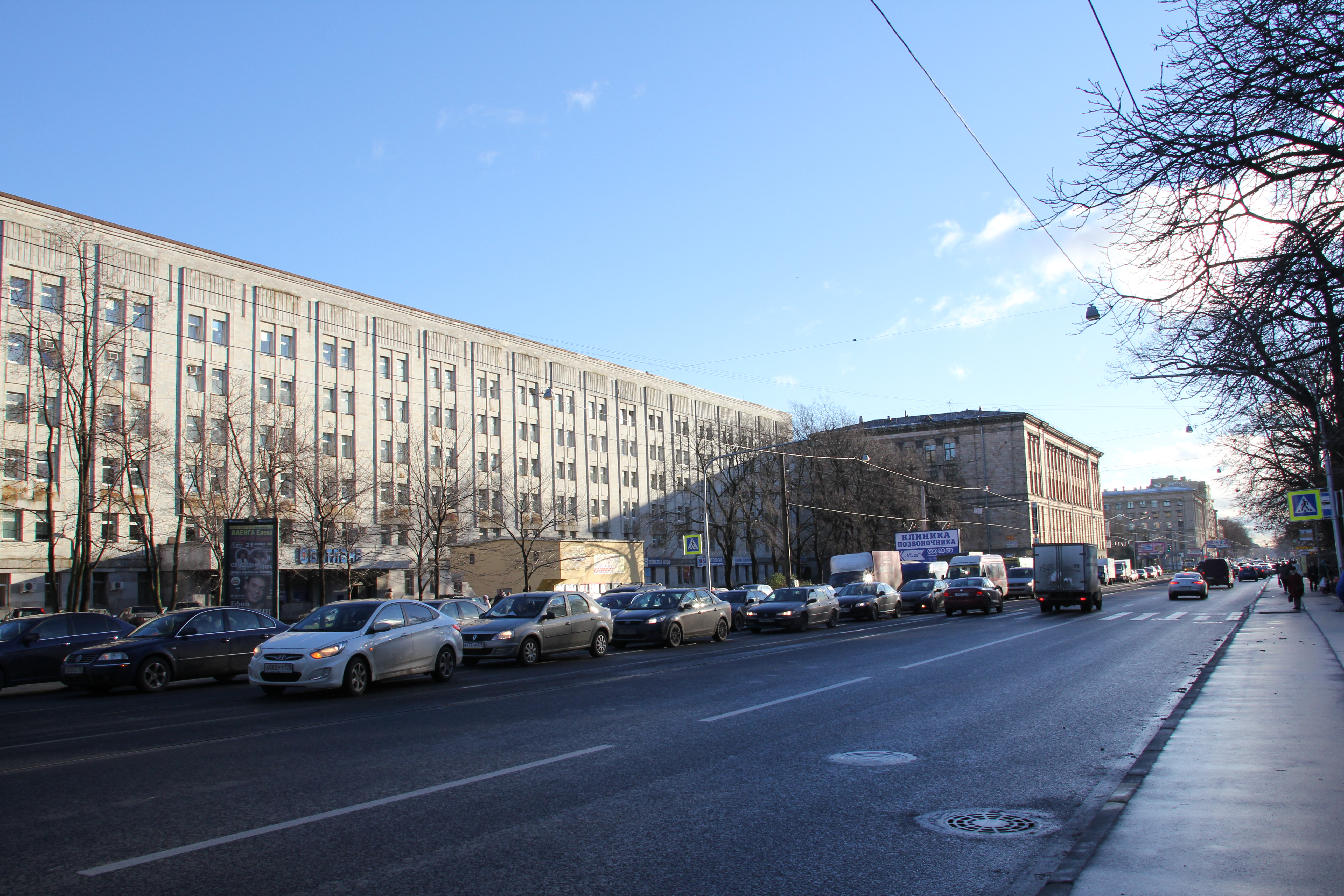 Policlinic of "Svetlana" plant